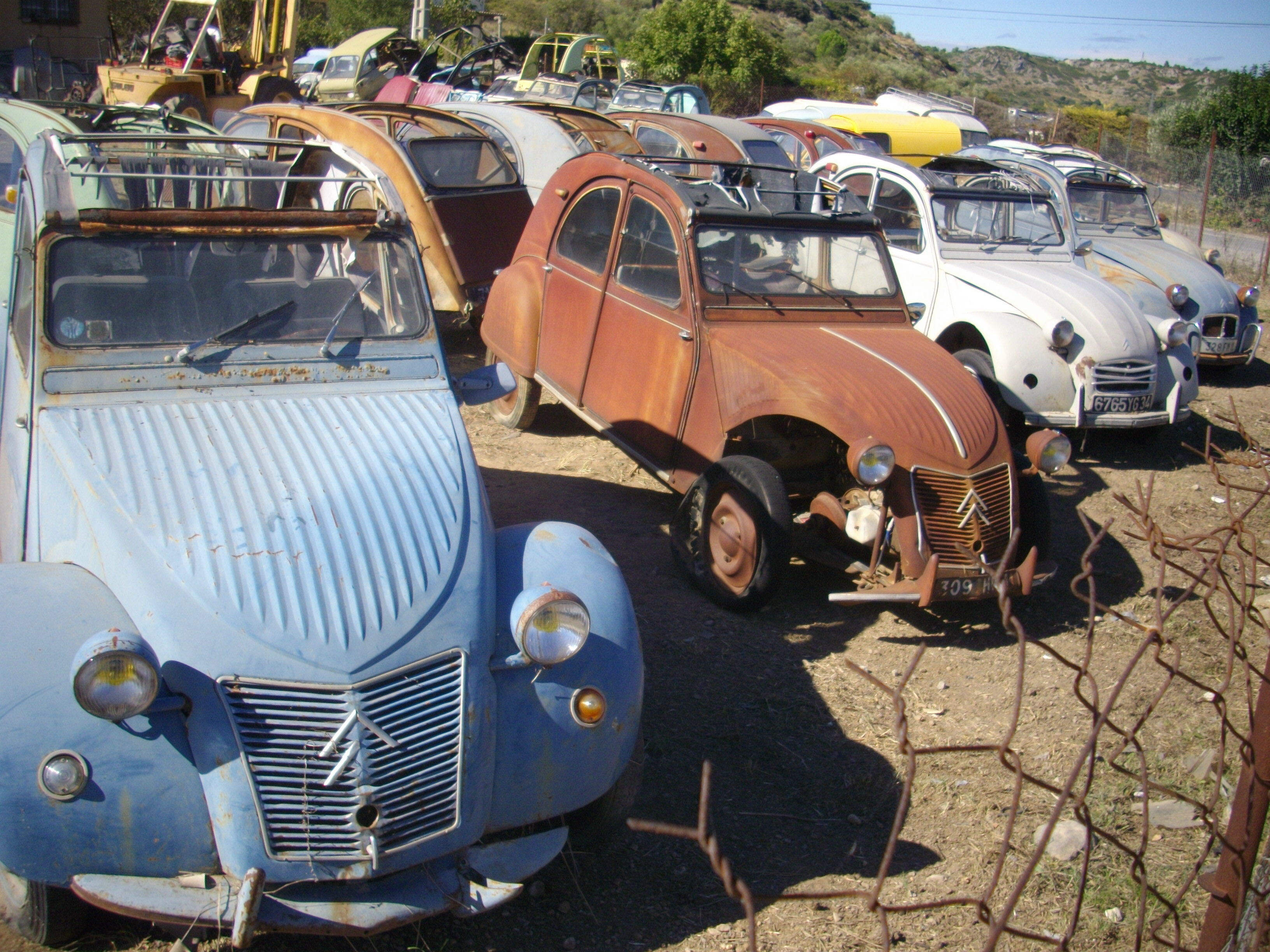 Citroën 2CV wreck yard, at Narbonne, France